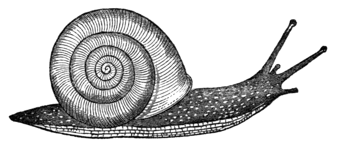 drawing of live animal of Neohelix albolabris (in the source book mentined as Polygyra albolabris)